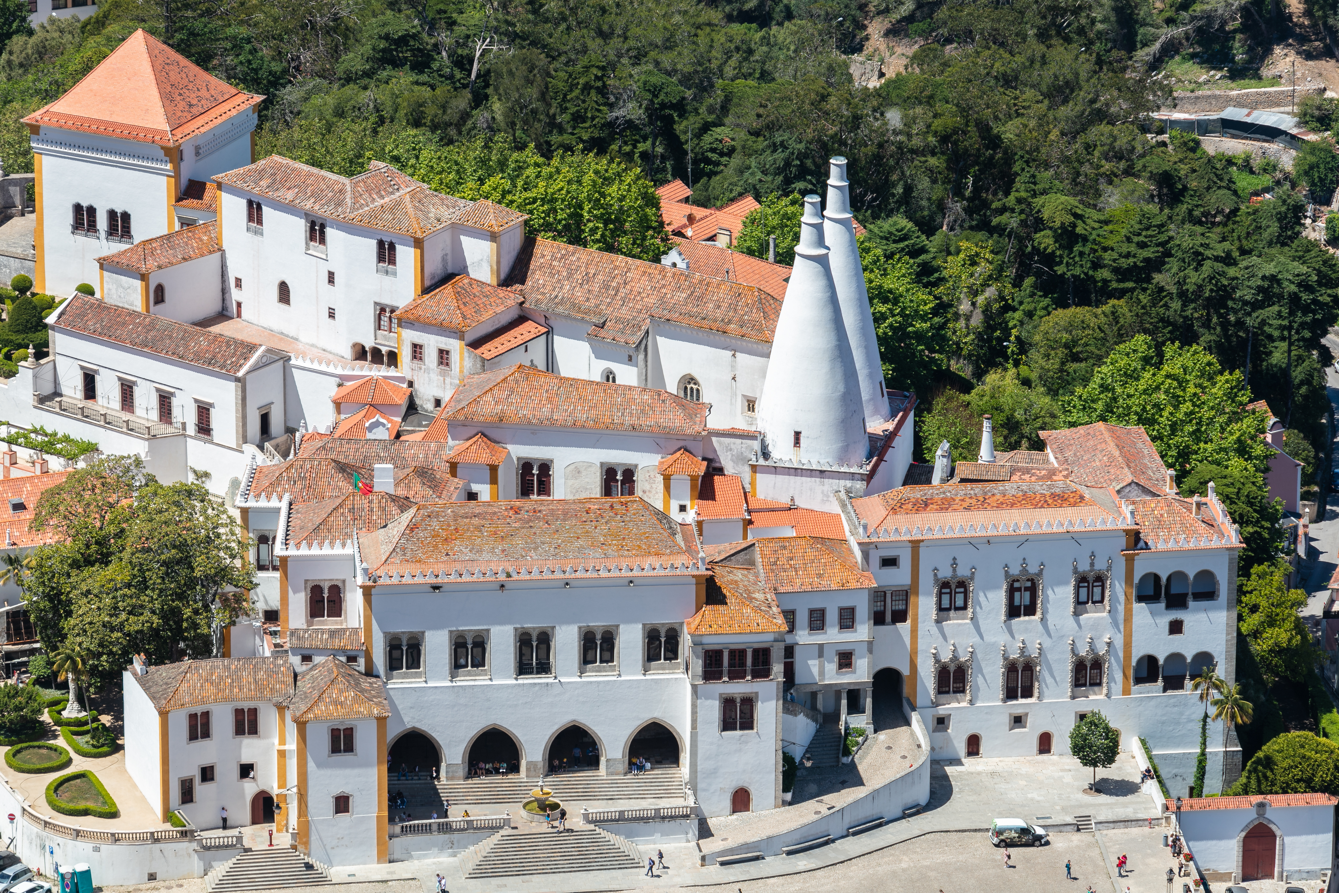 Palácio Nacional, Sintra, Portugal